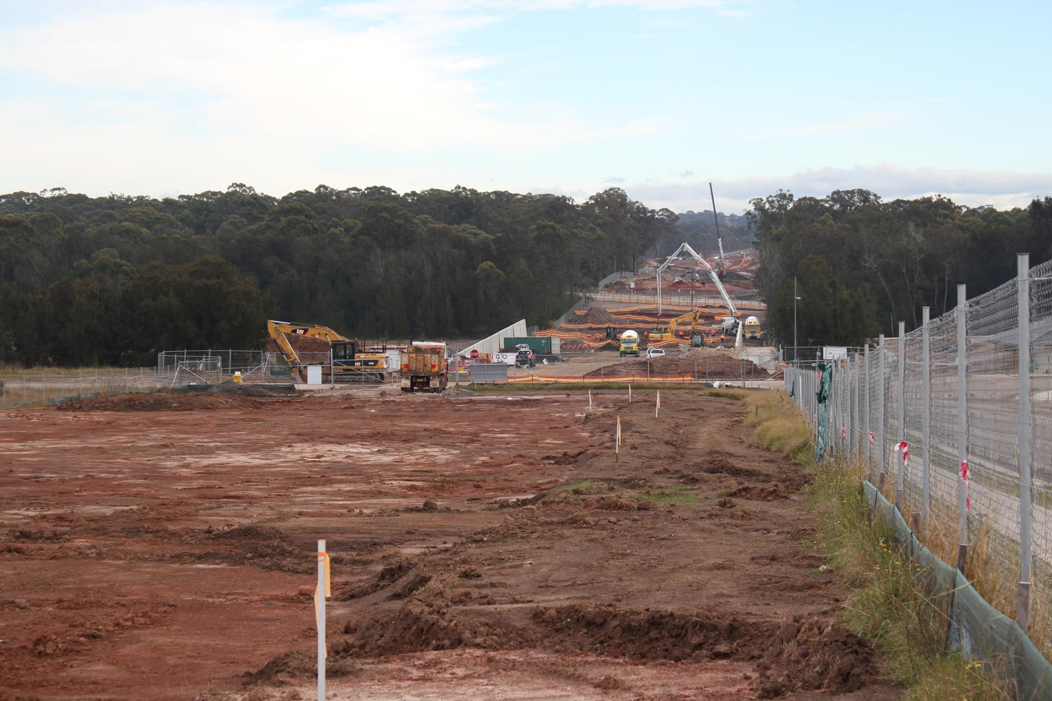 Station site seen from a distance